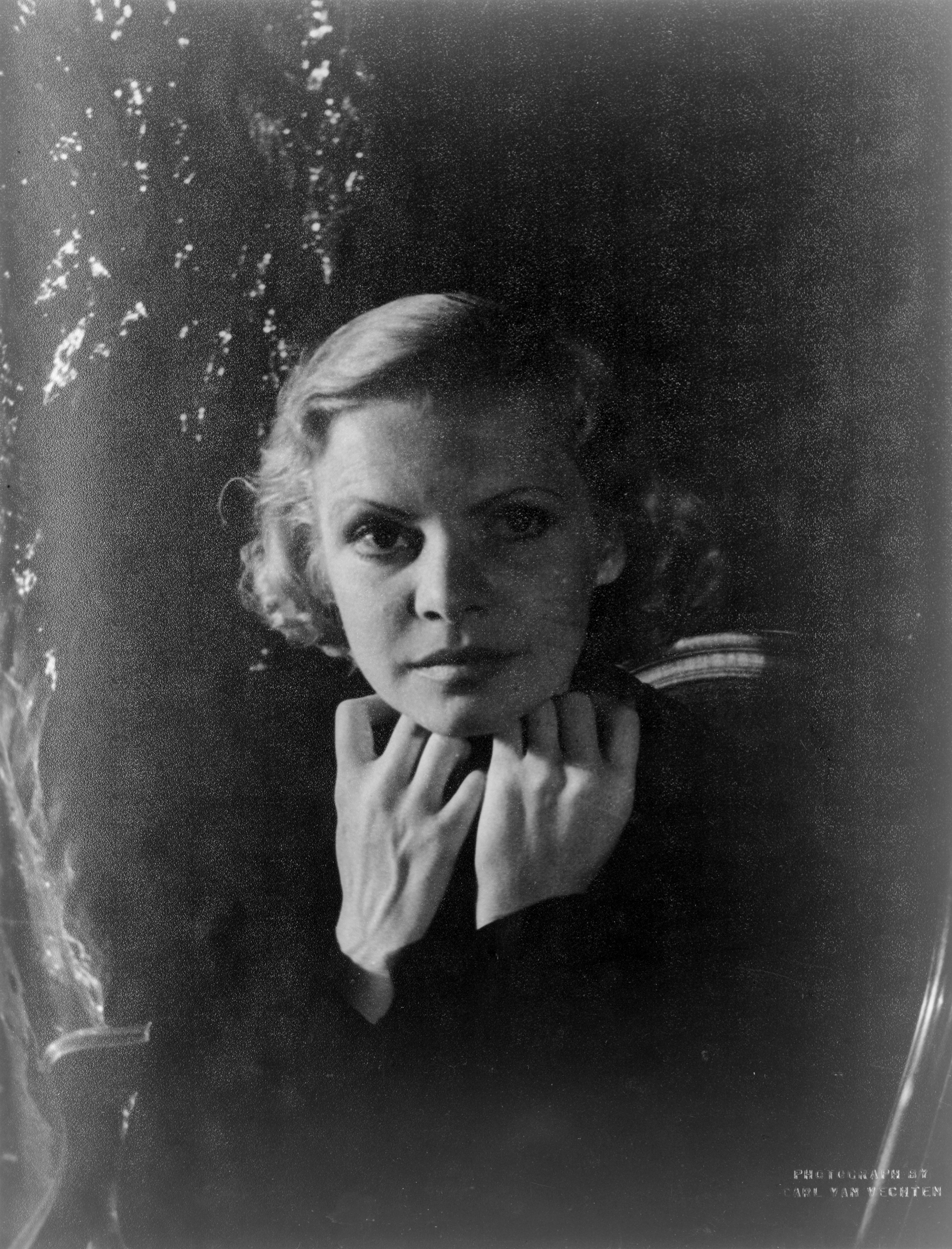 american stage and film actress Claire Luce (1903-1989)